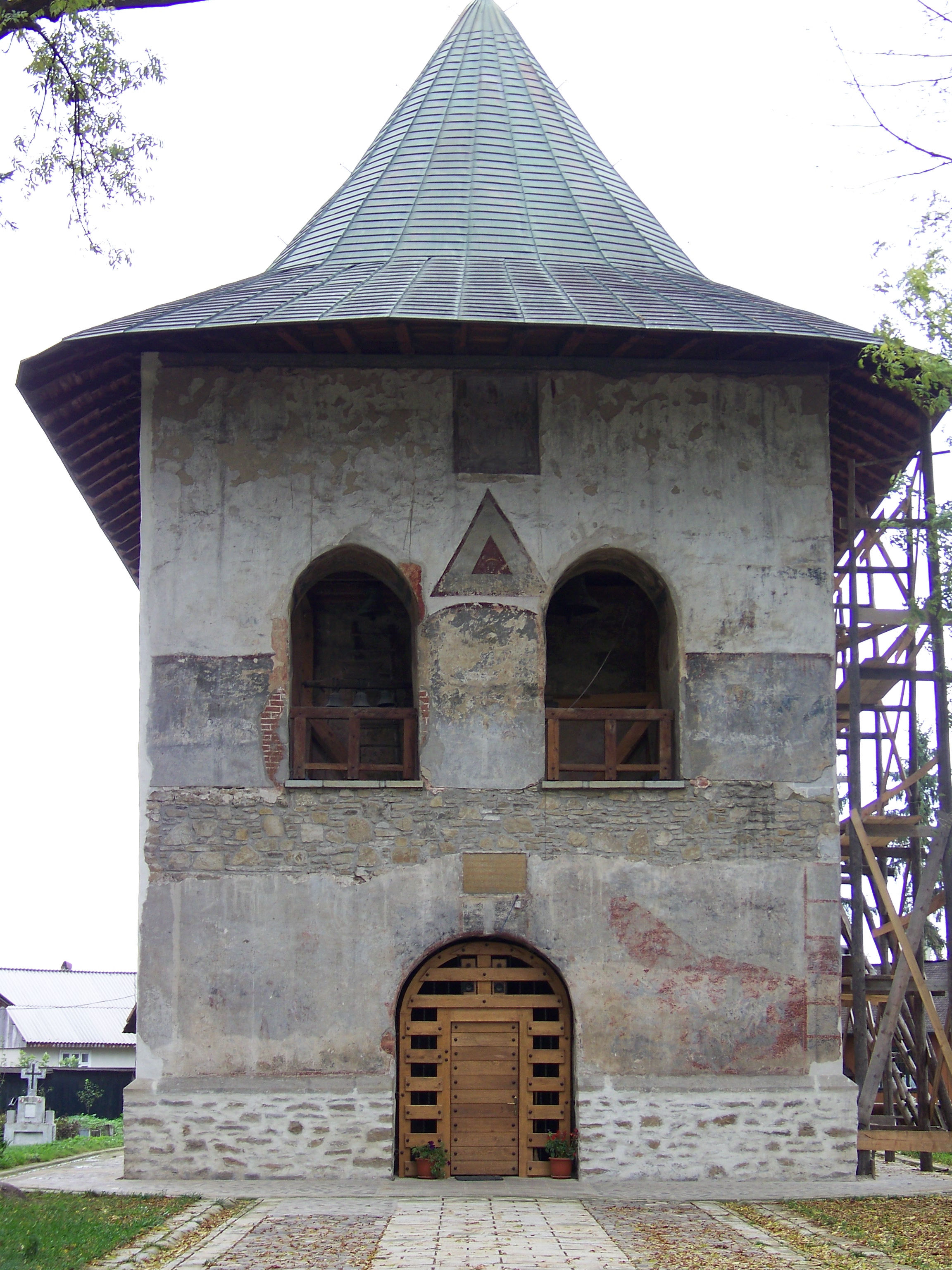 The Assumption of Mary church in Baia, Suceava, RomaniaRomână: Biserica Adormirea Maicii Domnului Baia